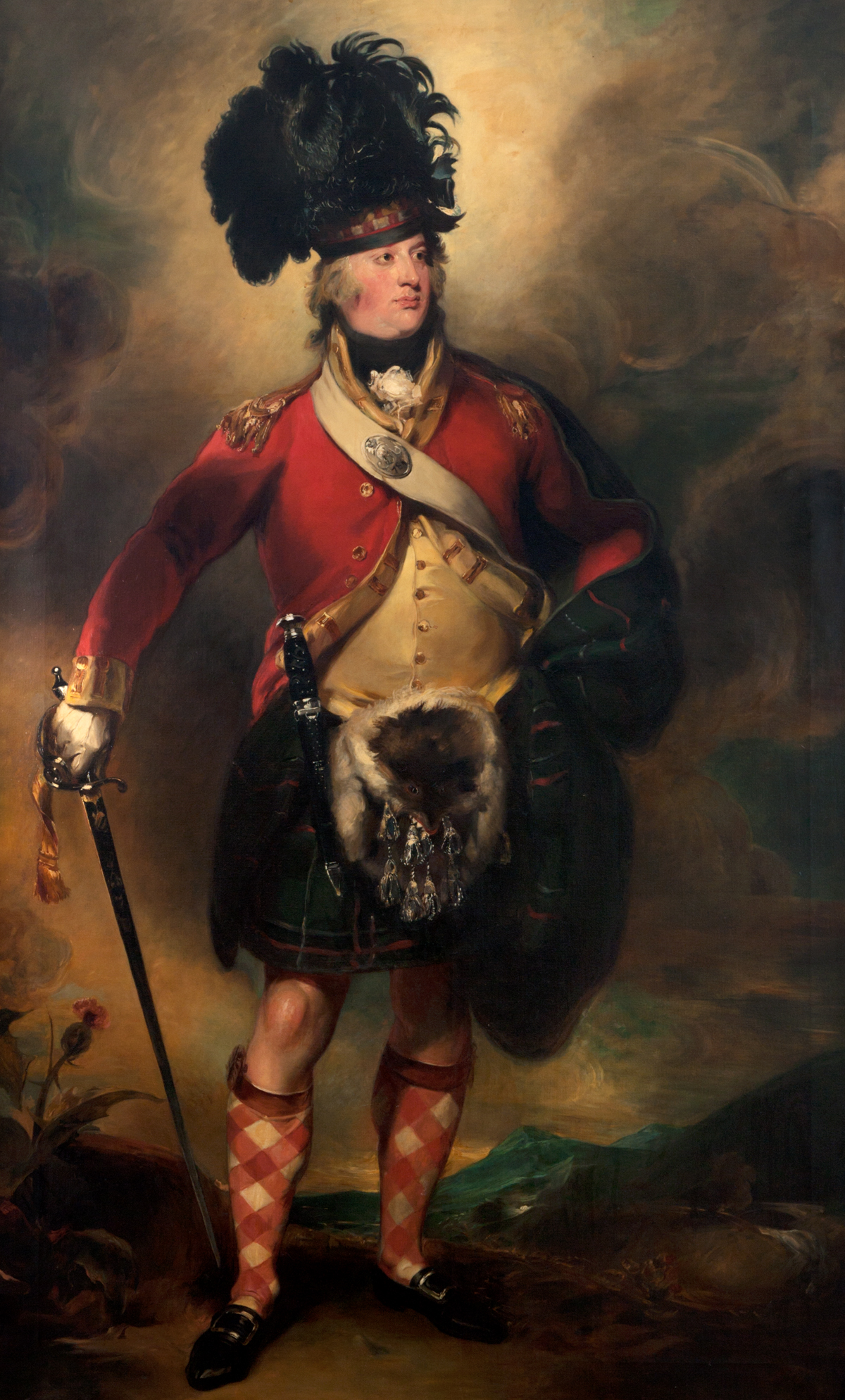 Francis Mackenzie, 1st Baron Seaforth FRS (9 June 1754 – 11 January 1815), Chief of the Highland Clan Mackenzie who raised the 78th (Highlanders) Regiment of Foot and twice served as Member of Parliament for Ross-shire.